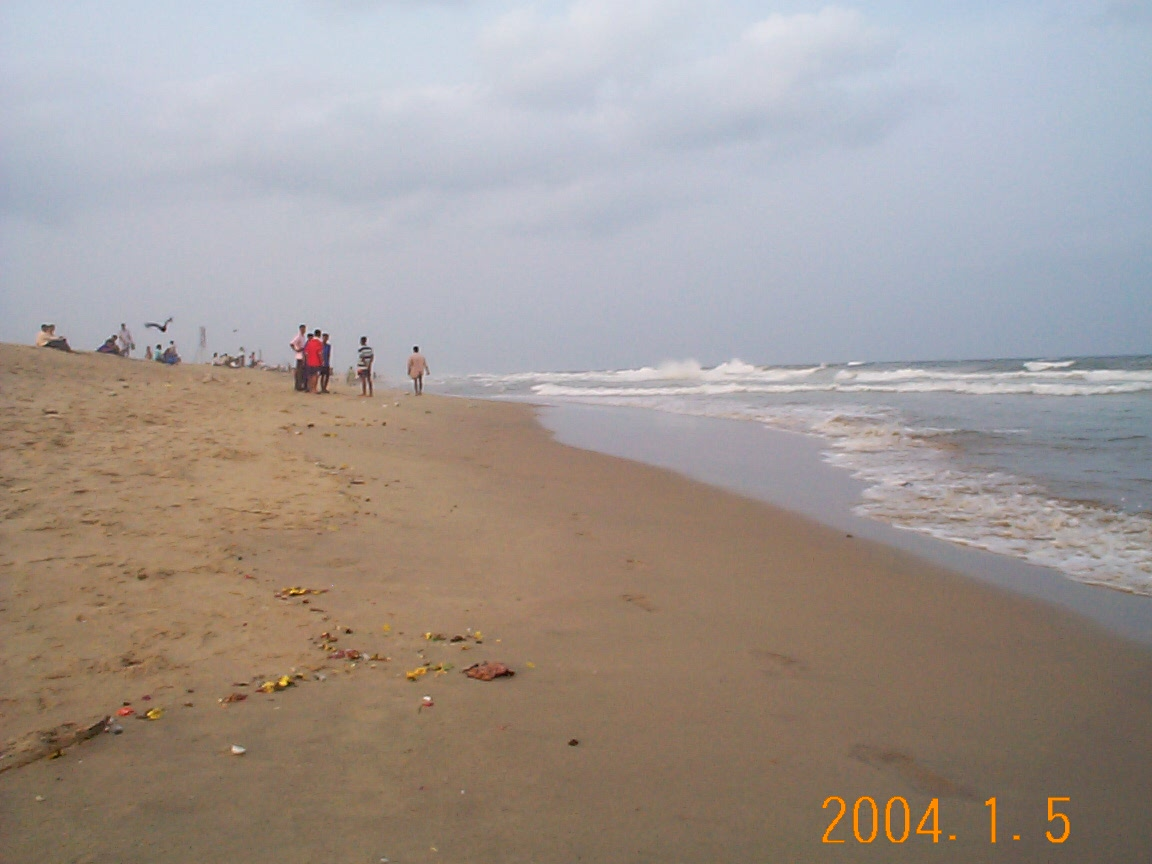 View of Elliot's Beach, Besantnagar, Chennai, Tamil Nadu, India, Photo provided by User:WikiD7359 on Jan 4, 2005 under GFDL.